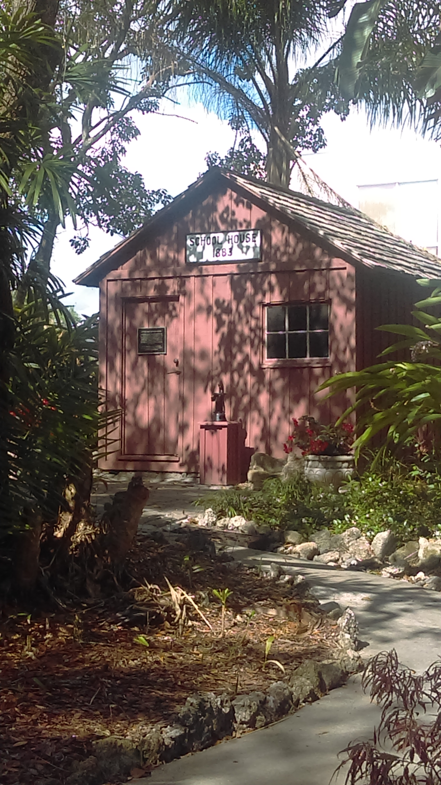 One of the oldest buildings on the campus of Florida Institute of Technology: a schoolhouse built in the late 1800s..